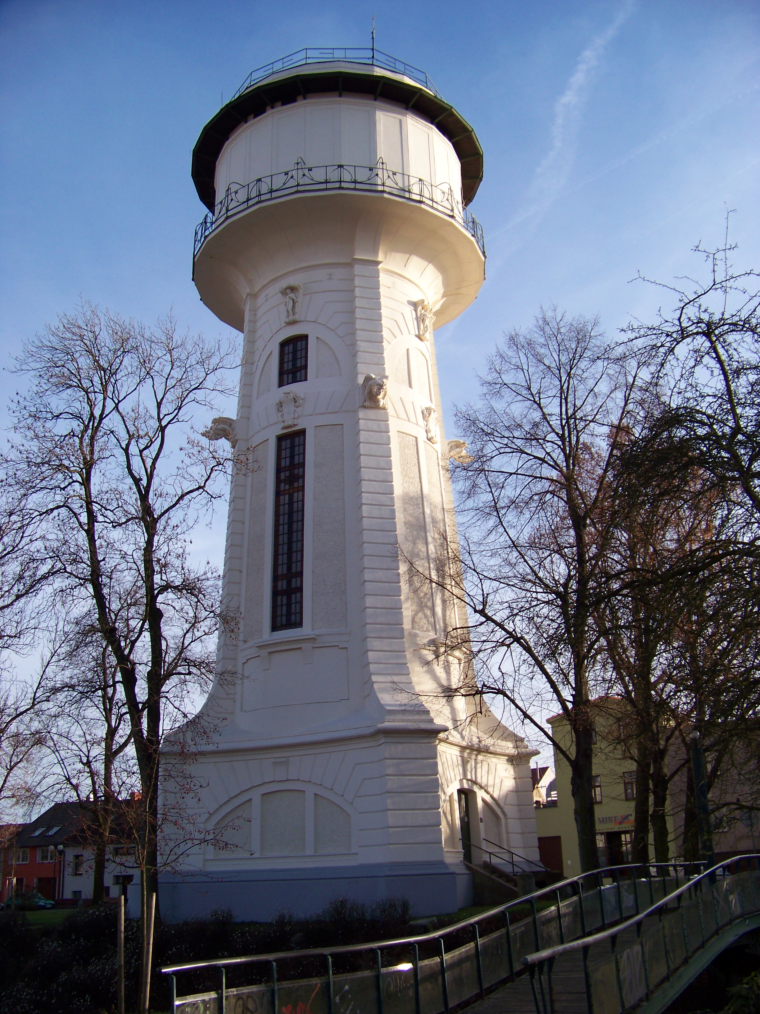 Nymburk, Nymburk District, Central Bohemian Region, the Czech Republic. Vodárenská street, a footbridge over the moat, the water tower.